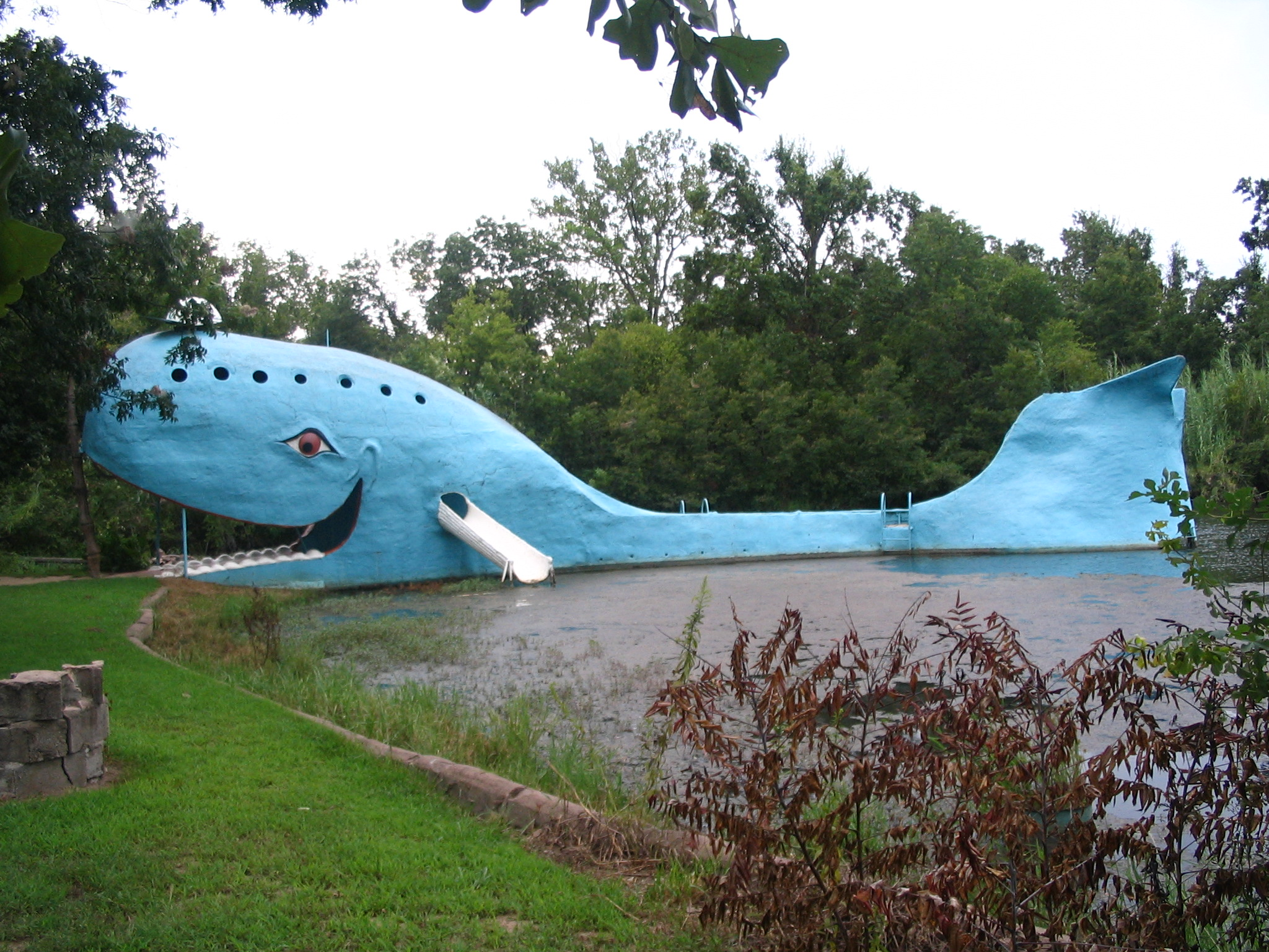 Wide shot of the Blue Whale of Catoosa and the pond